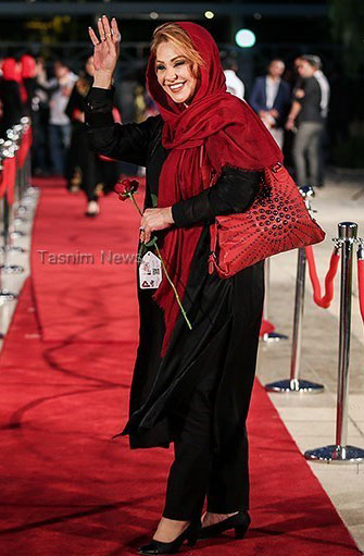 Nasrin Moghanloo, Iranian actress at 16th Hafez Awards.